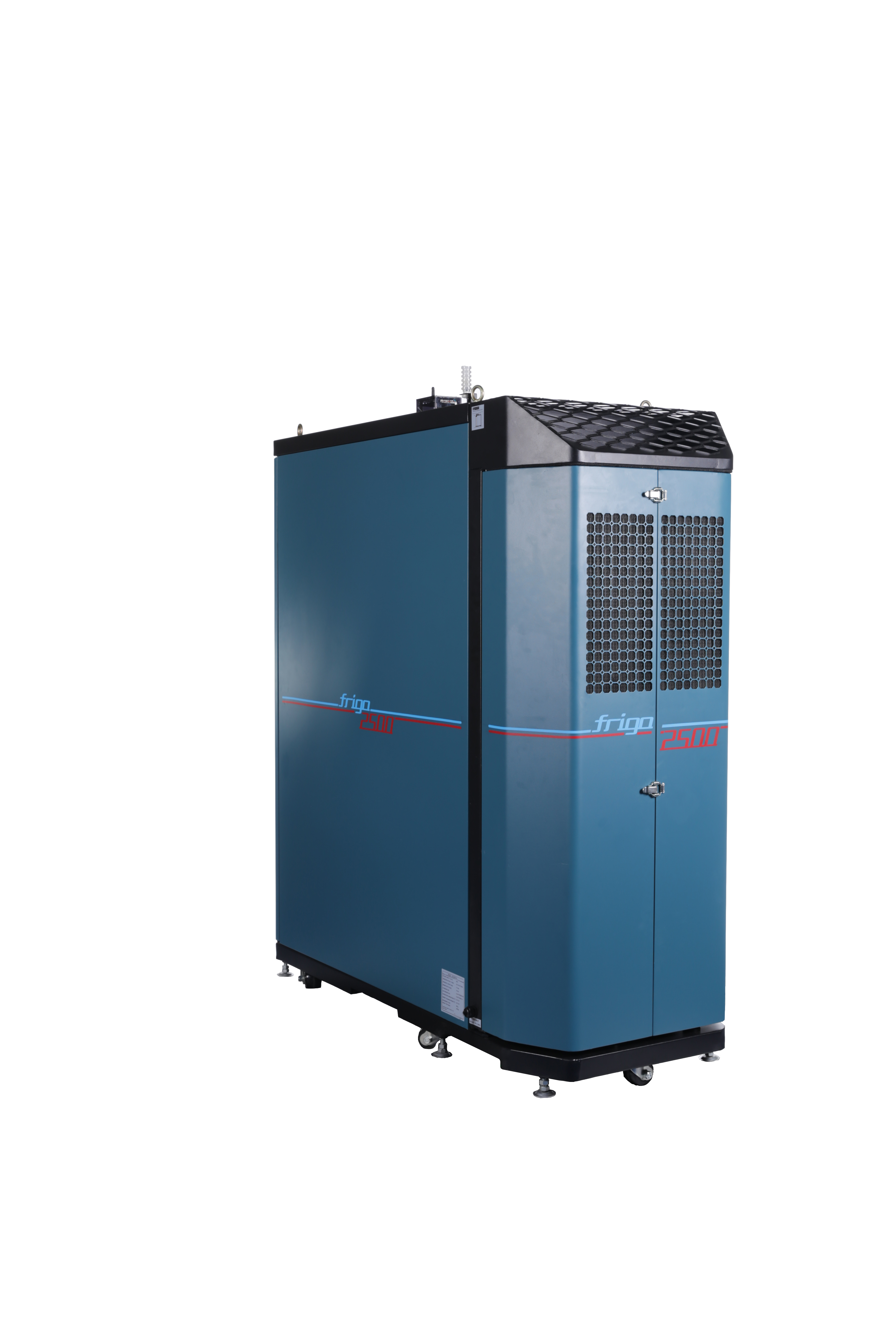 The cooling compartment of the enclosure that is attached to rear of the rack.